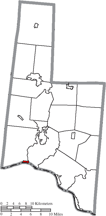 Map of the municipal and township boundaries of Brown County, Ohio, United States, as of the 2000 census, with the location of the village of Higginsport highlighted. Township borders are shown only in unincorporated areas in order to differentiate incorporated and unincorporated areas more clearly.